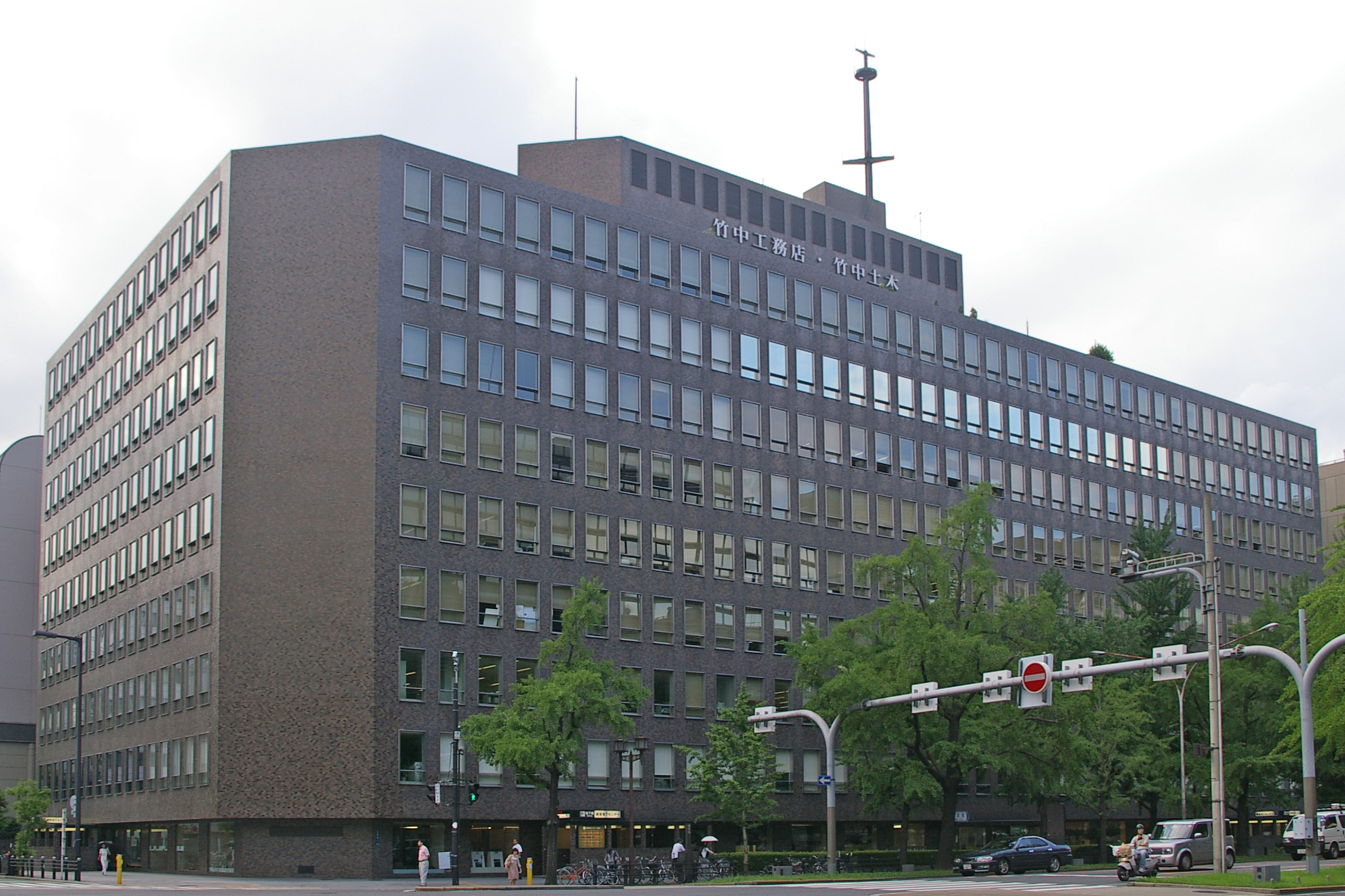 Photograph of Mido Building, head office of Takenaka Corporation in Chuo-ku, Osaka, Osaka Prefecture, Japan.